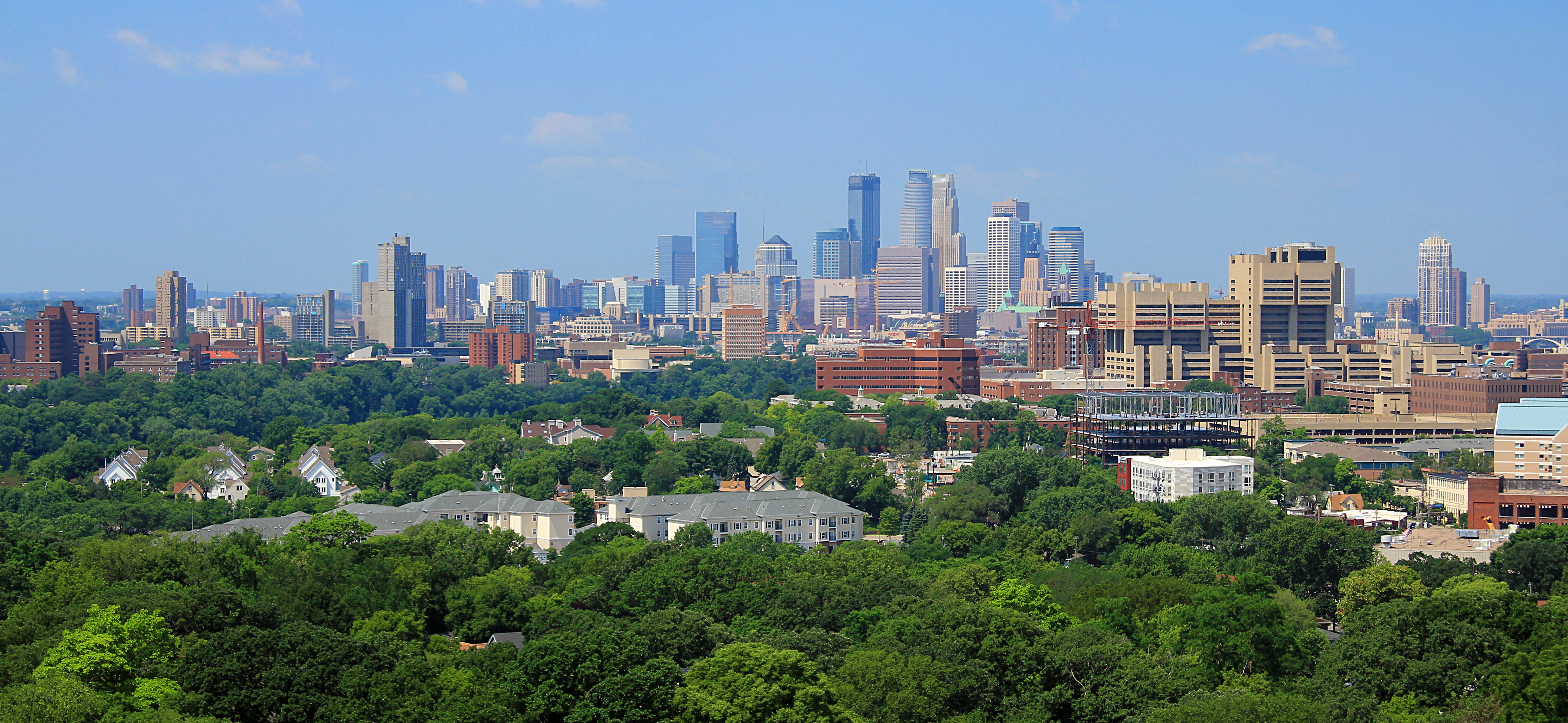 Minneapolis skyline from the Witch's Tower.